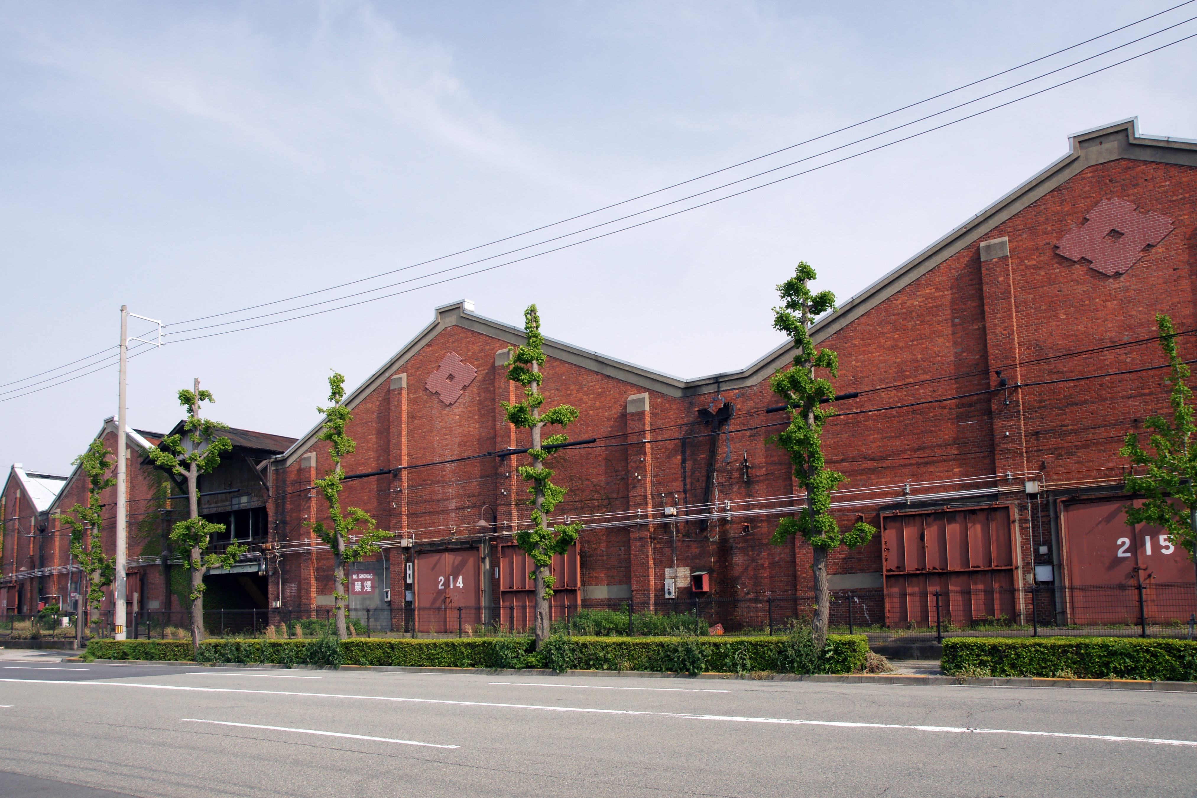 Chikko Red Brick Warehouse in Osaka, Osaka prefecture, Japan